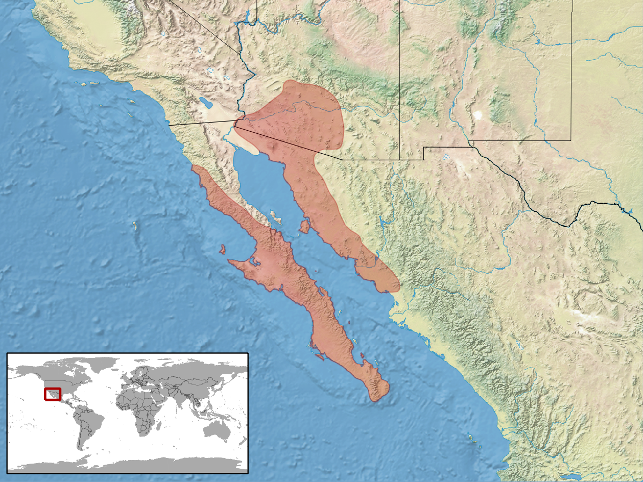 geographic distribution of Chilomeniscus stramineus (Native: Mexico; United States)